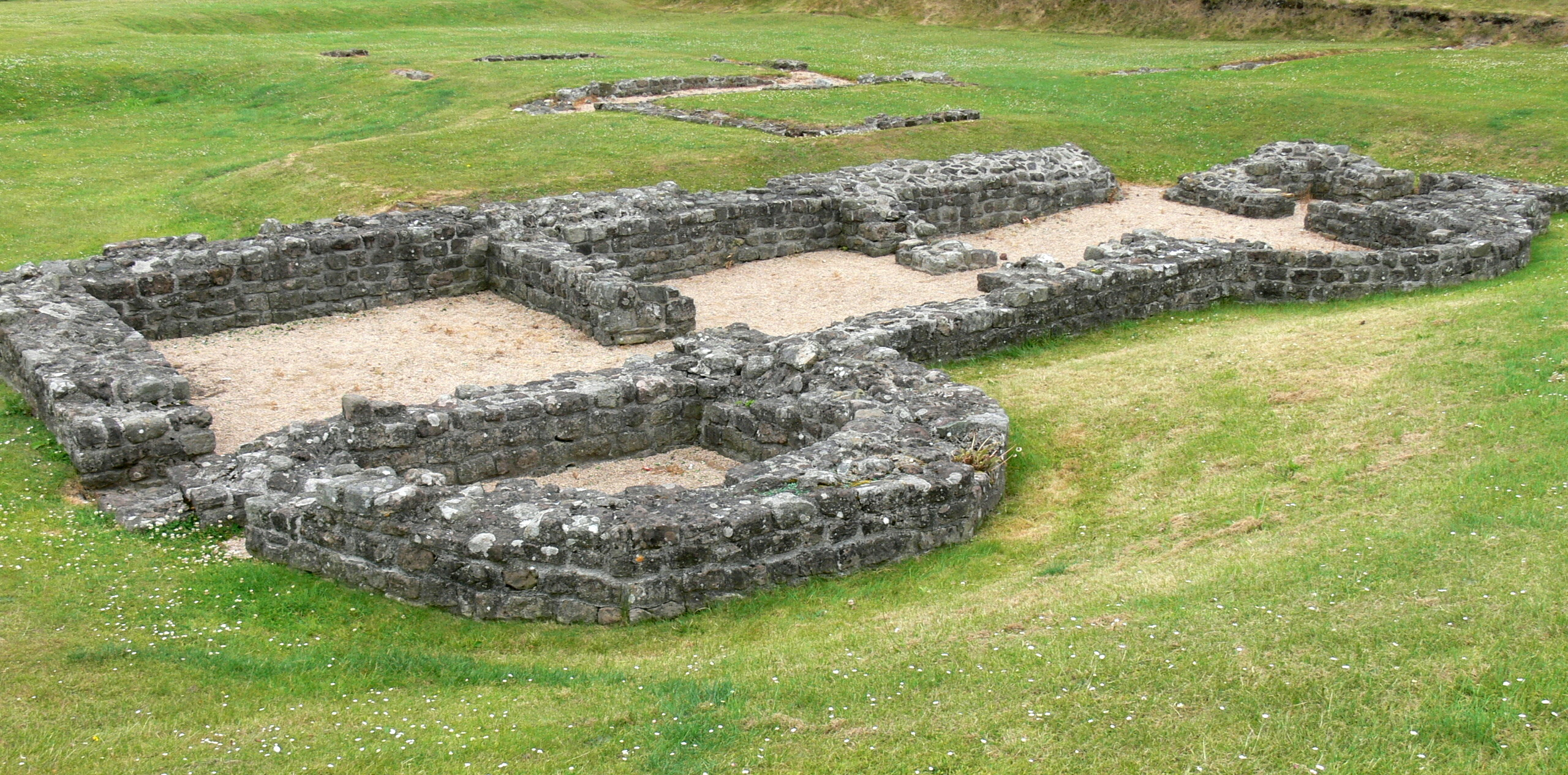 Segontium Roman fort ( Wales ). Fundaments of thermae ( bath house ).